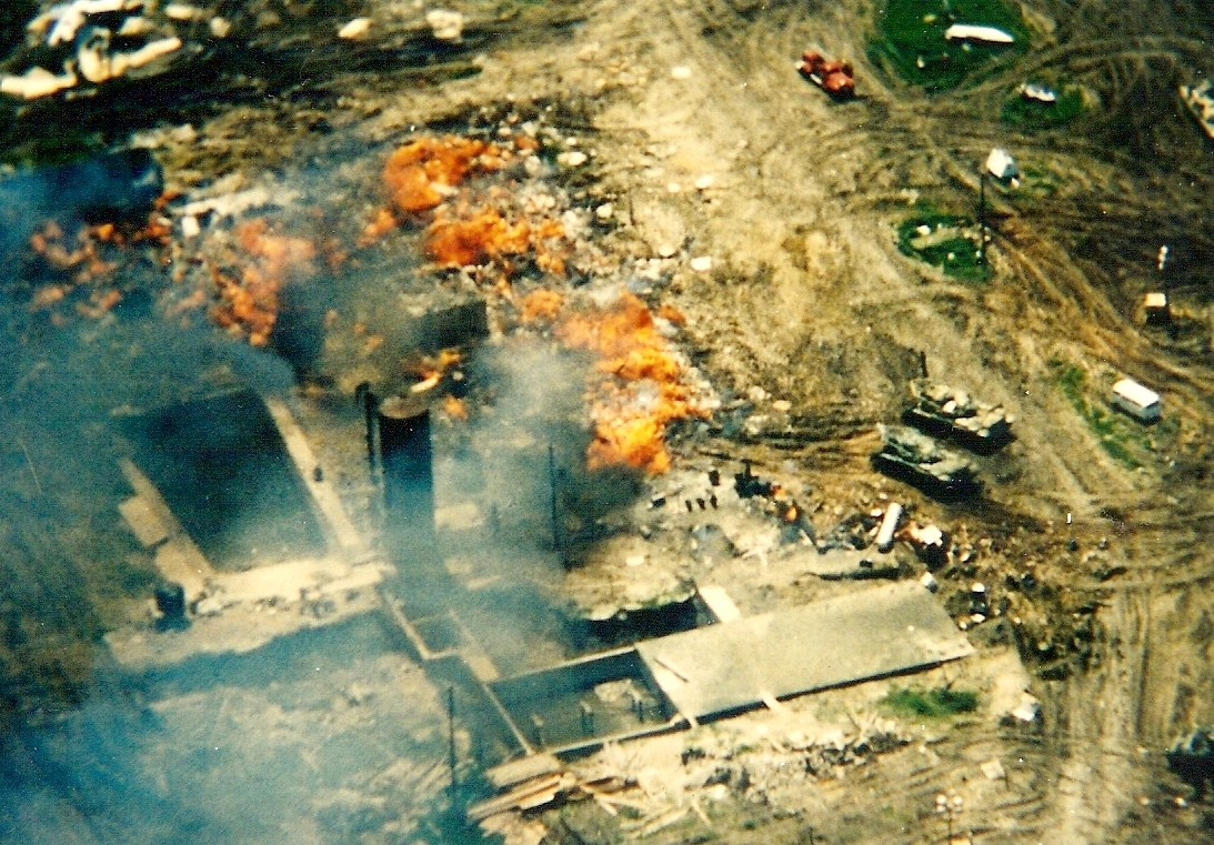 Last remnants of Mount Carmel burn. 76 men, women and children died in the fire.